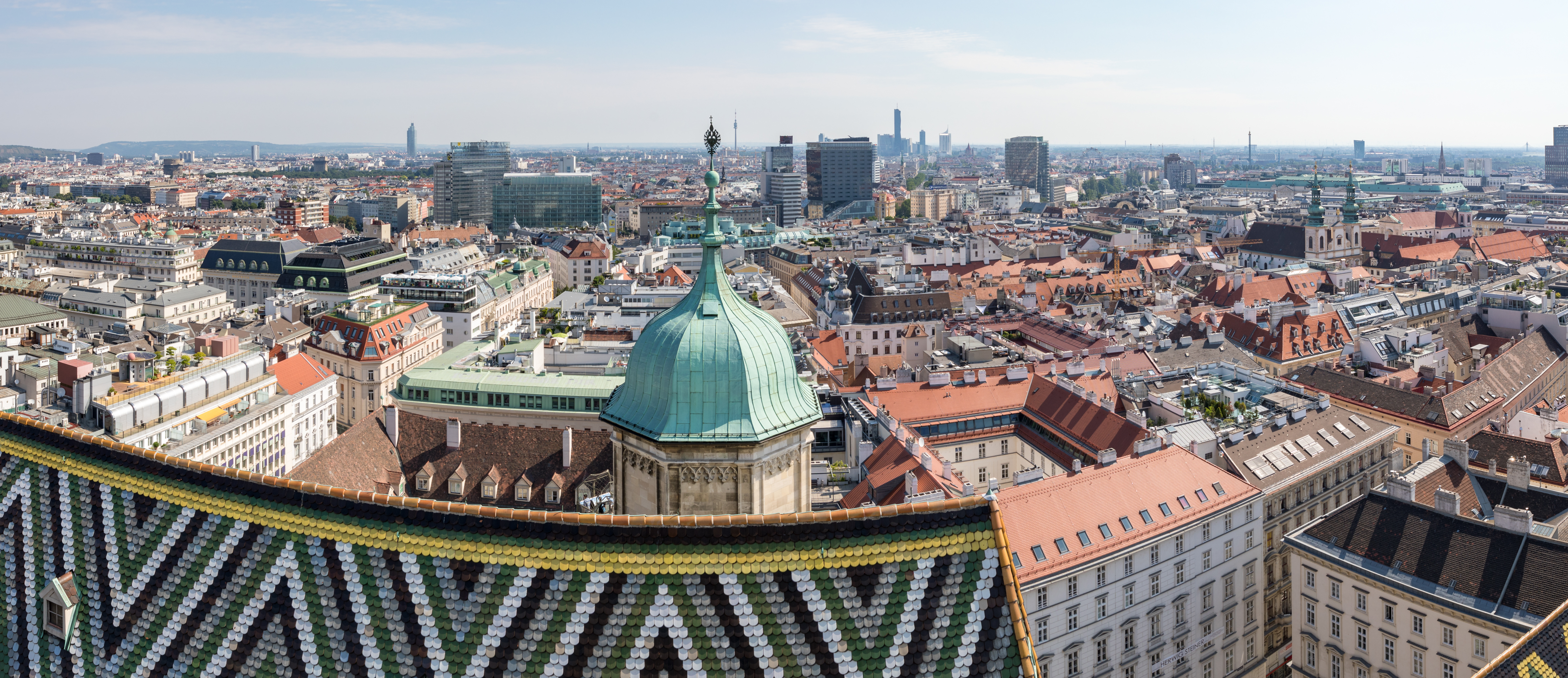 View from South Tower of St. Stephen's Cathedral, Vienna, Austria